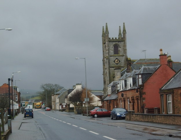 A76 through New Cumnock